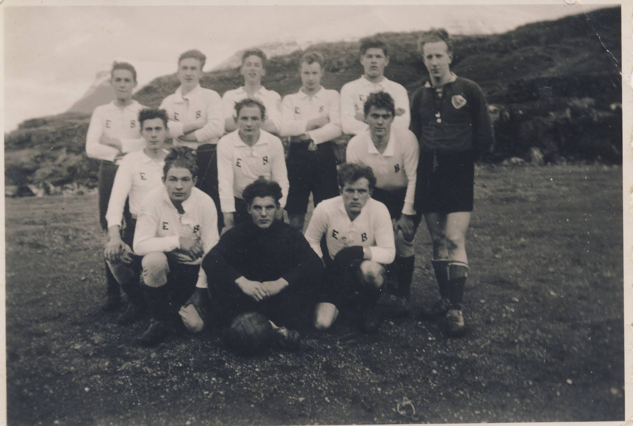 Team picture of Eiðis Bóltfelag football club.